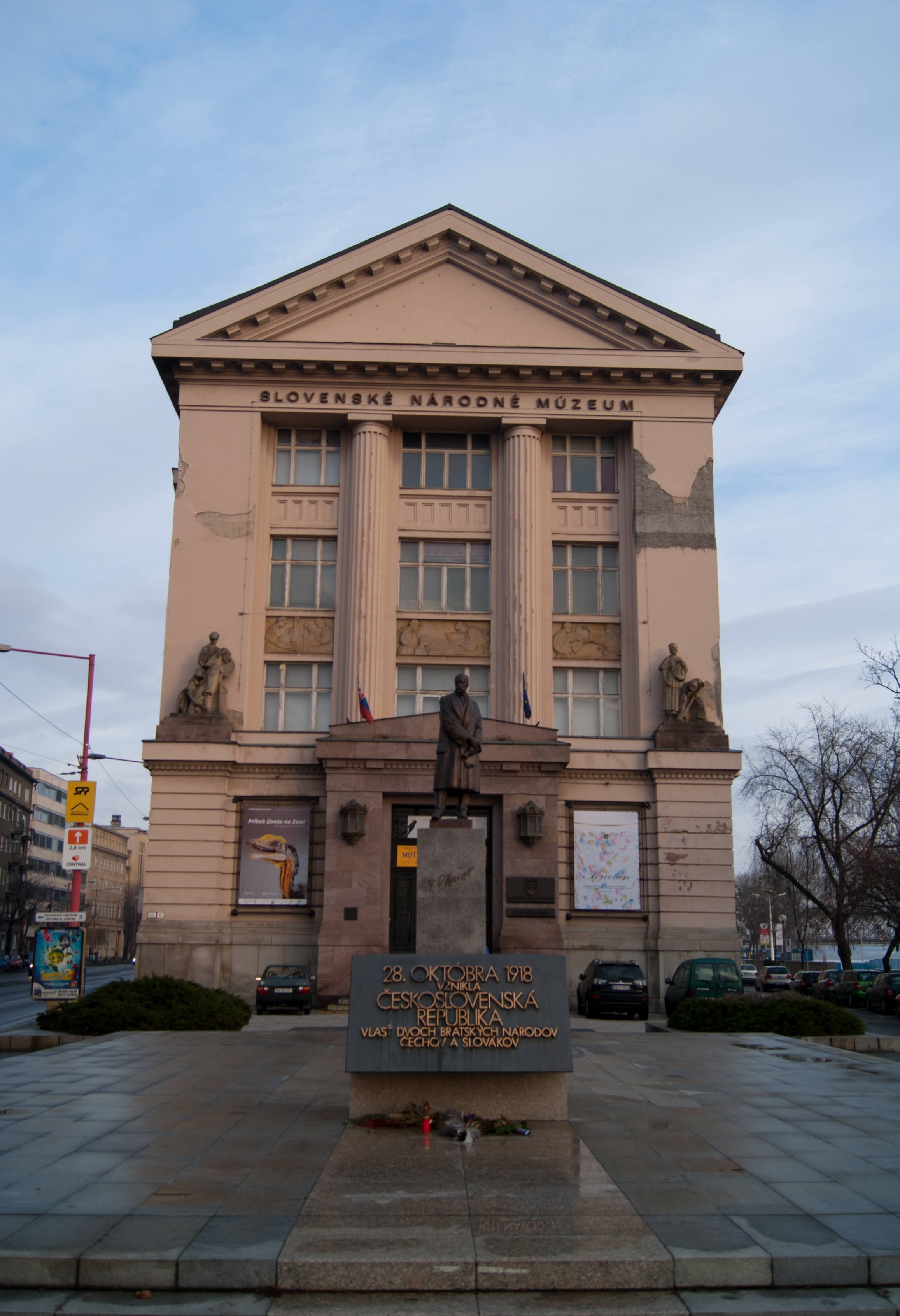 Main building of the Slovak National Museum